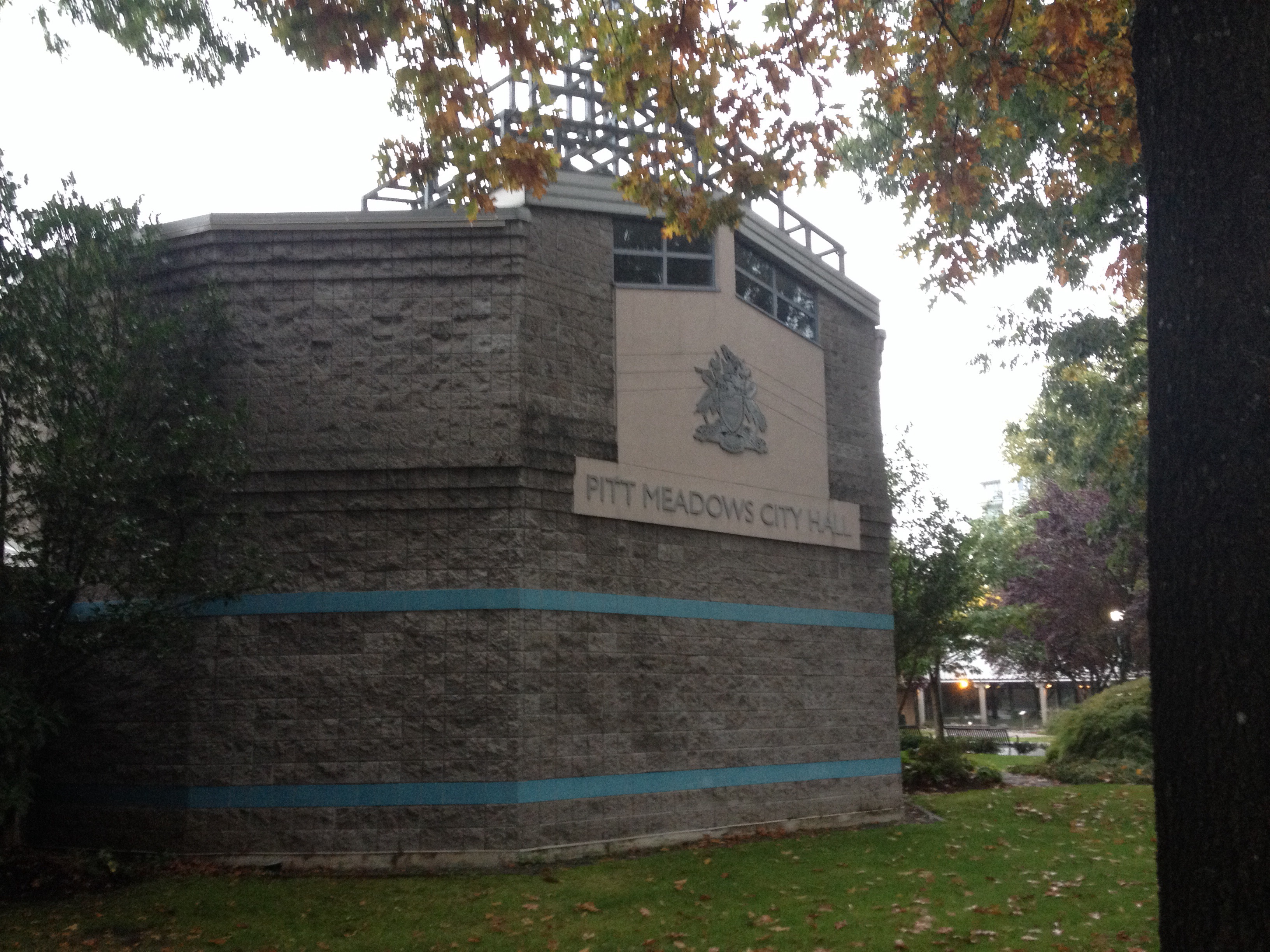 Pitt Meadows Municipal Hall